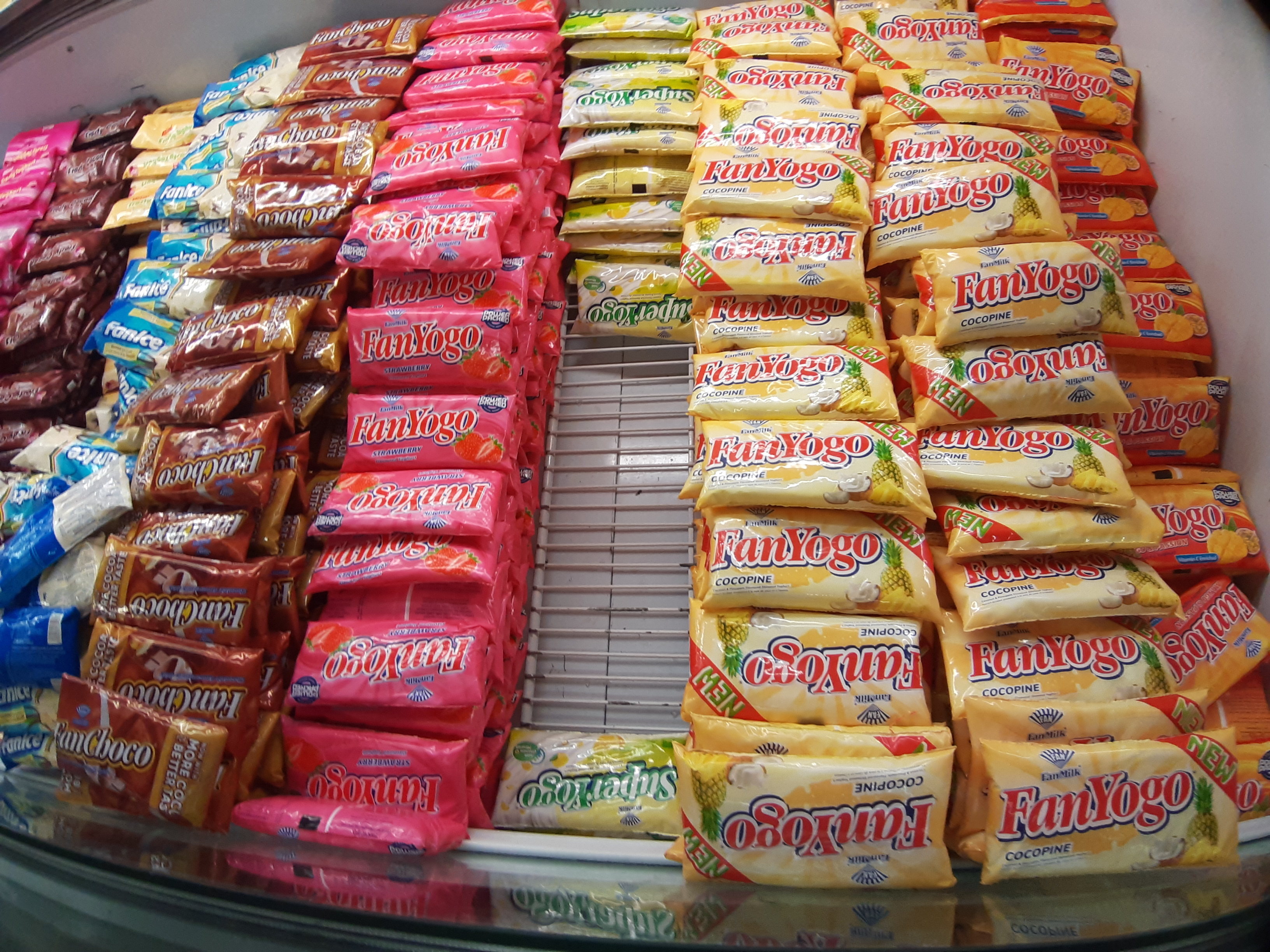 Different flavours of yogurt by Fanmilk Ghana.